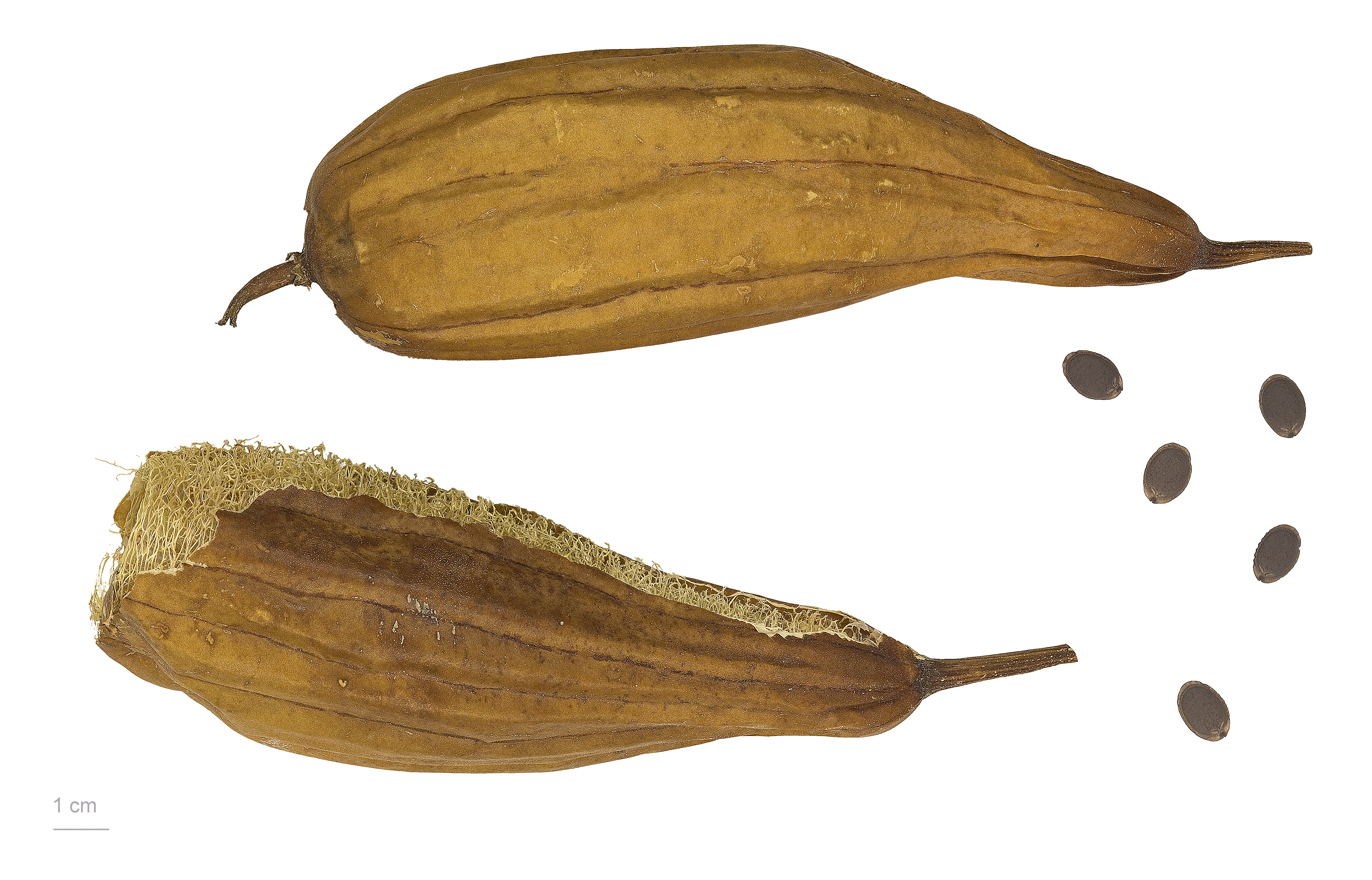 Sponge gourd, loofah, fruits and seeds